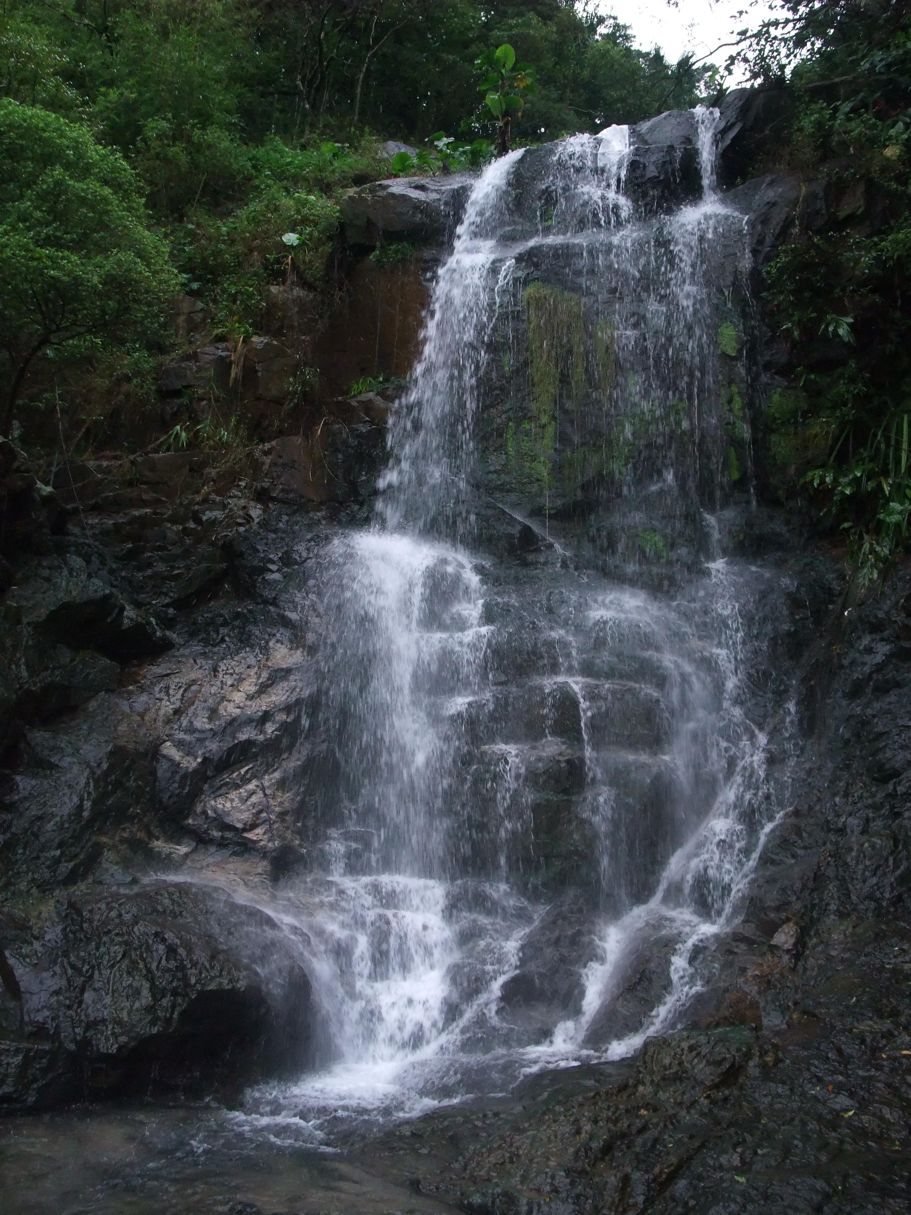 Photo of waterfall at Harlech Road